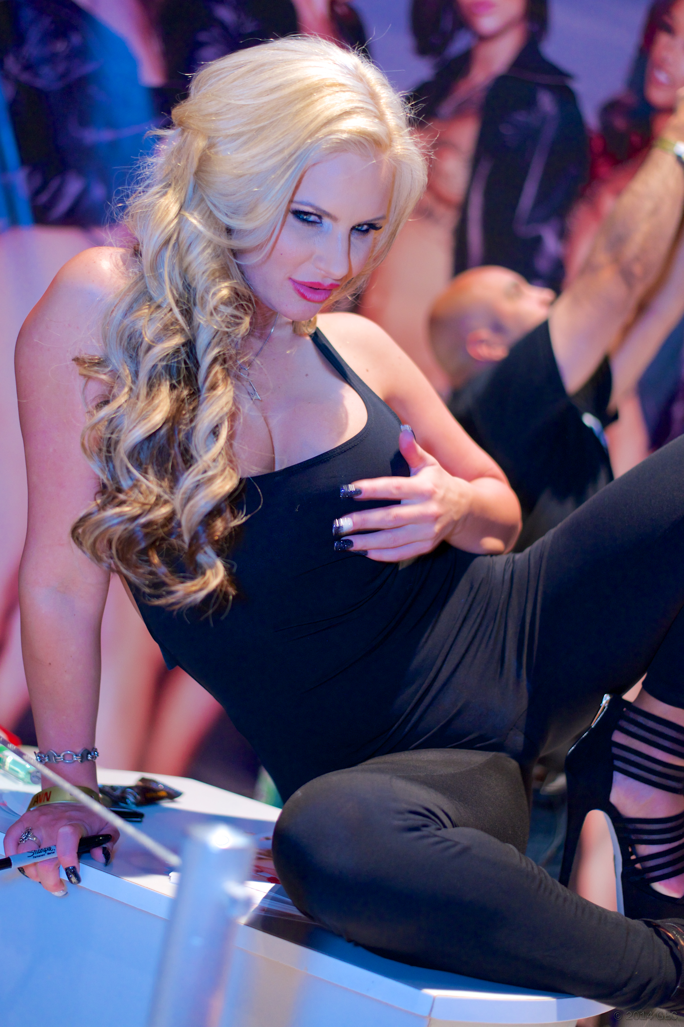 2014 AVN Adult Entertainment Expo AEE at Hard Rock Hotel - Las Vegas. 2014 © GEC. Video footage